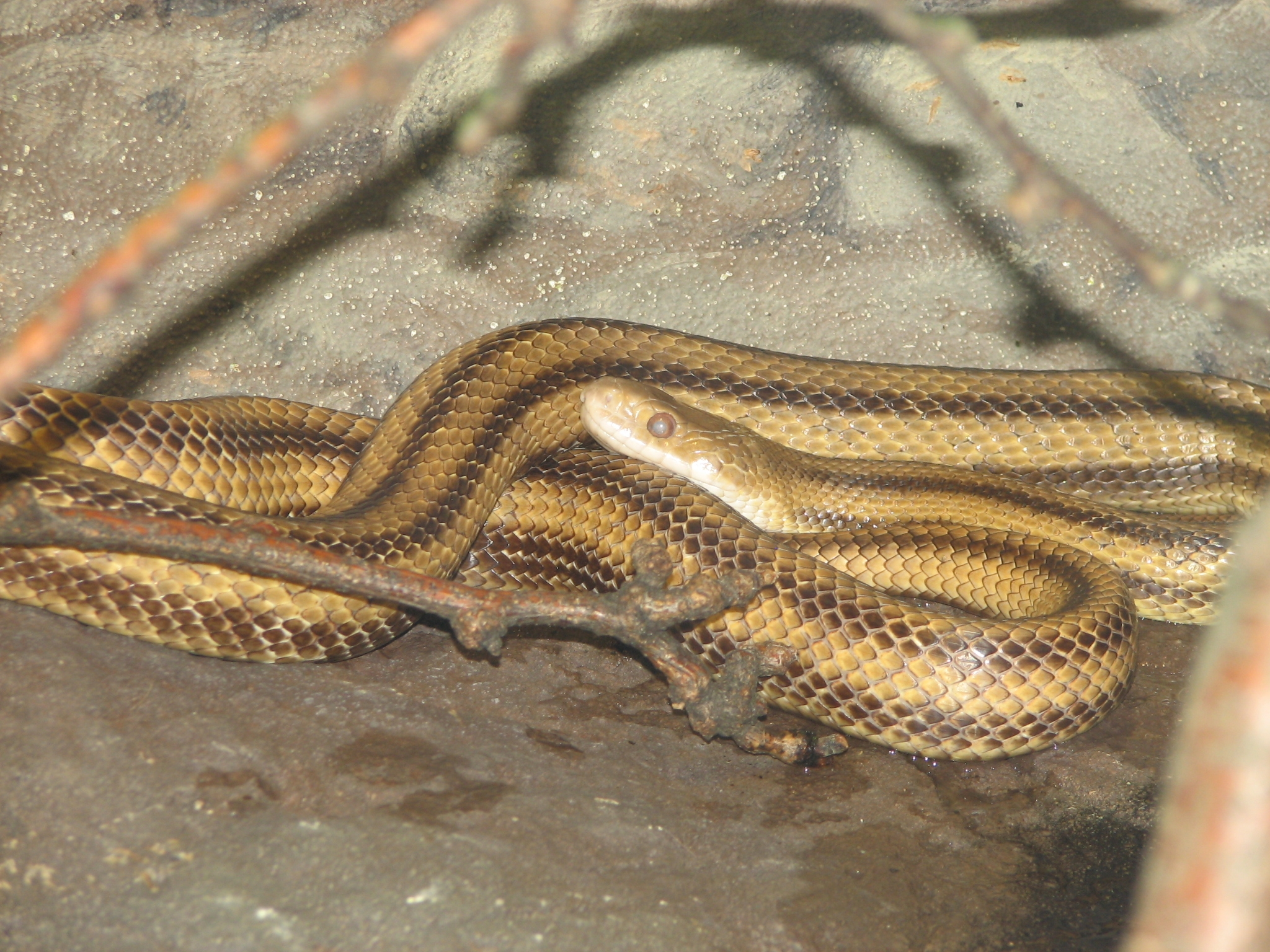 Yellow rat snake, Elaphe alleghaniensis